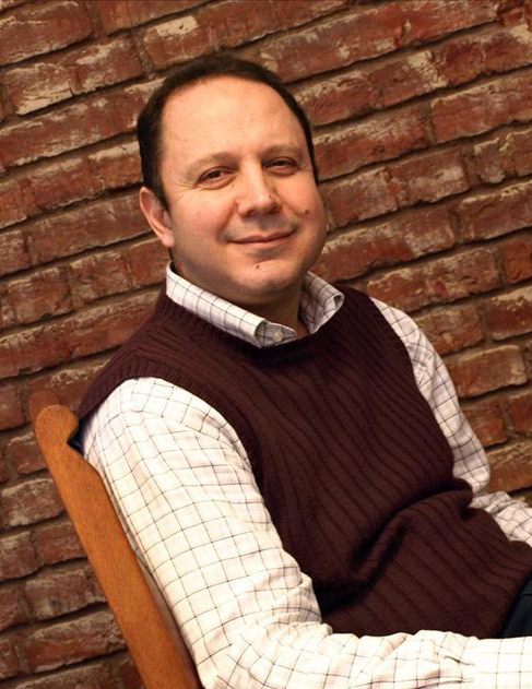 Portrait of Serif Yenen for the Serif Yenen article.